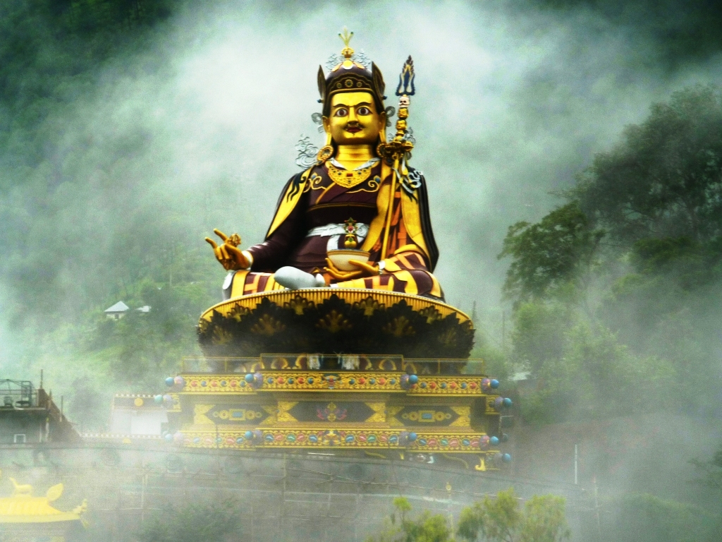 Photo of statue in mist from across the lake